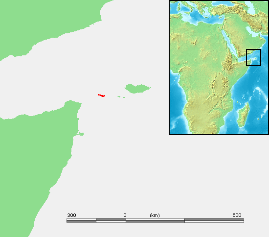 Locator map of Socotra